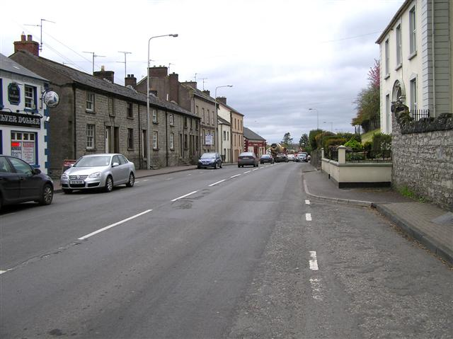 Main Street, Lisnaskea Heading north-west